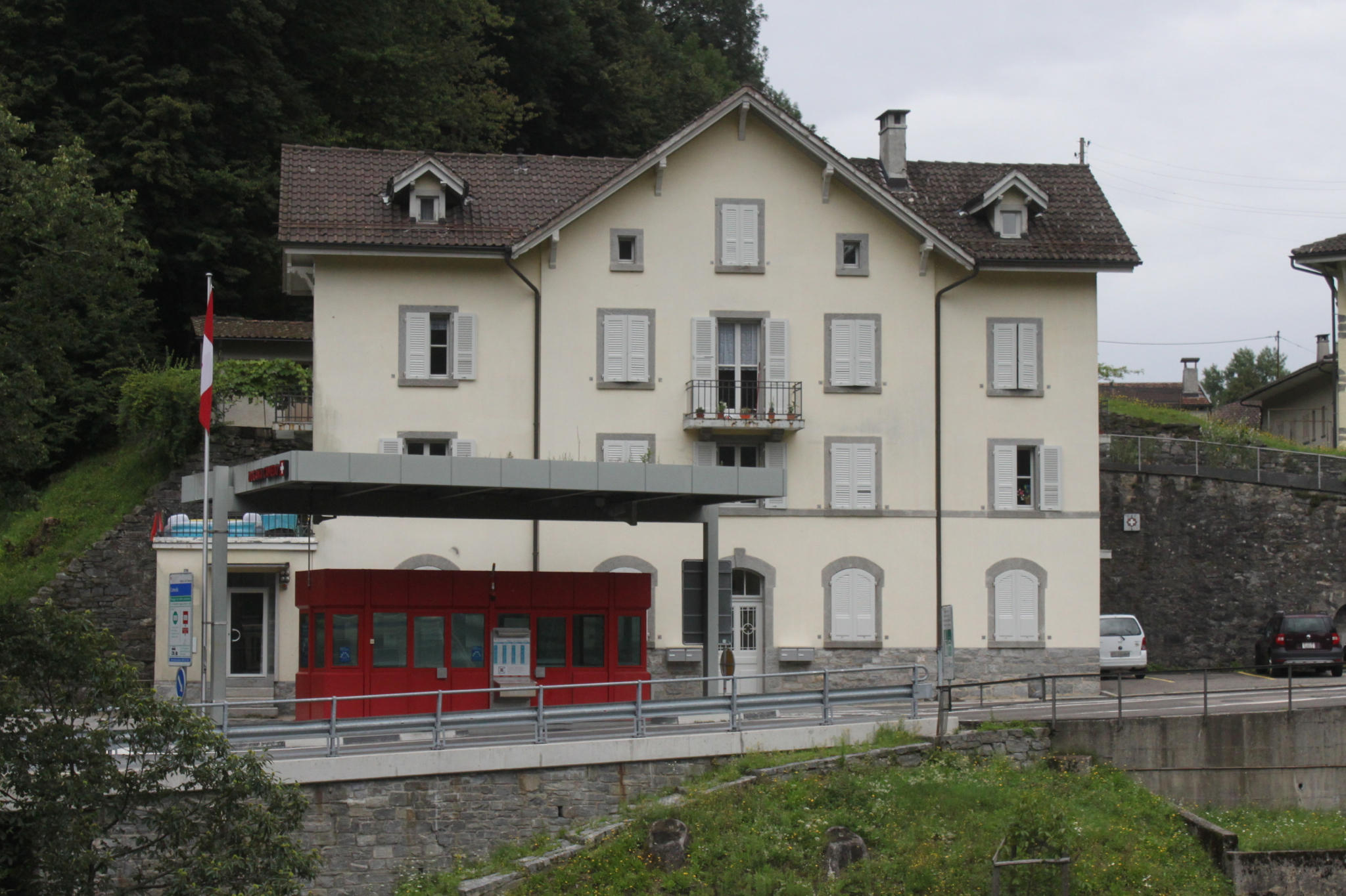 Custom house and border post at Camedo.